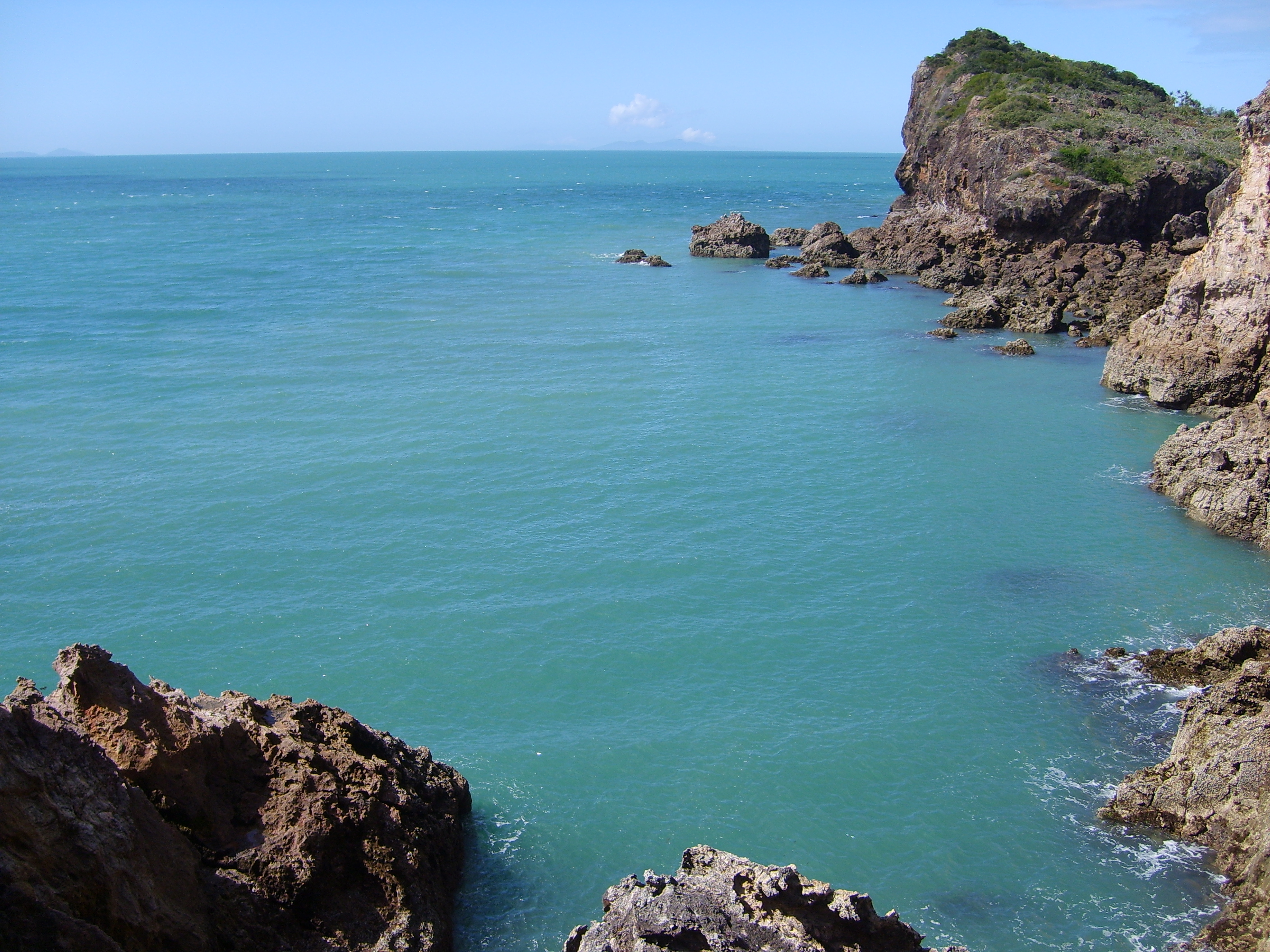 View from Seaforth